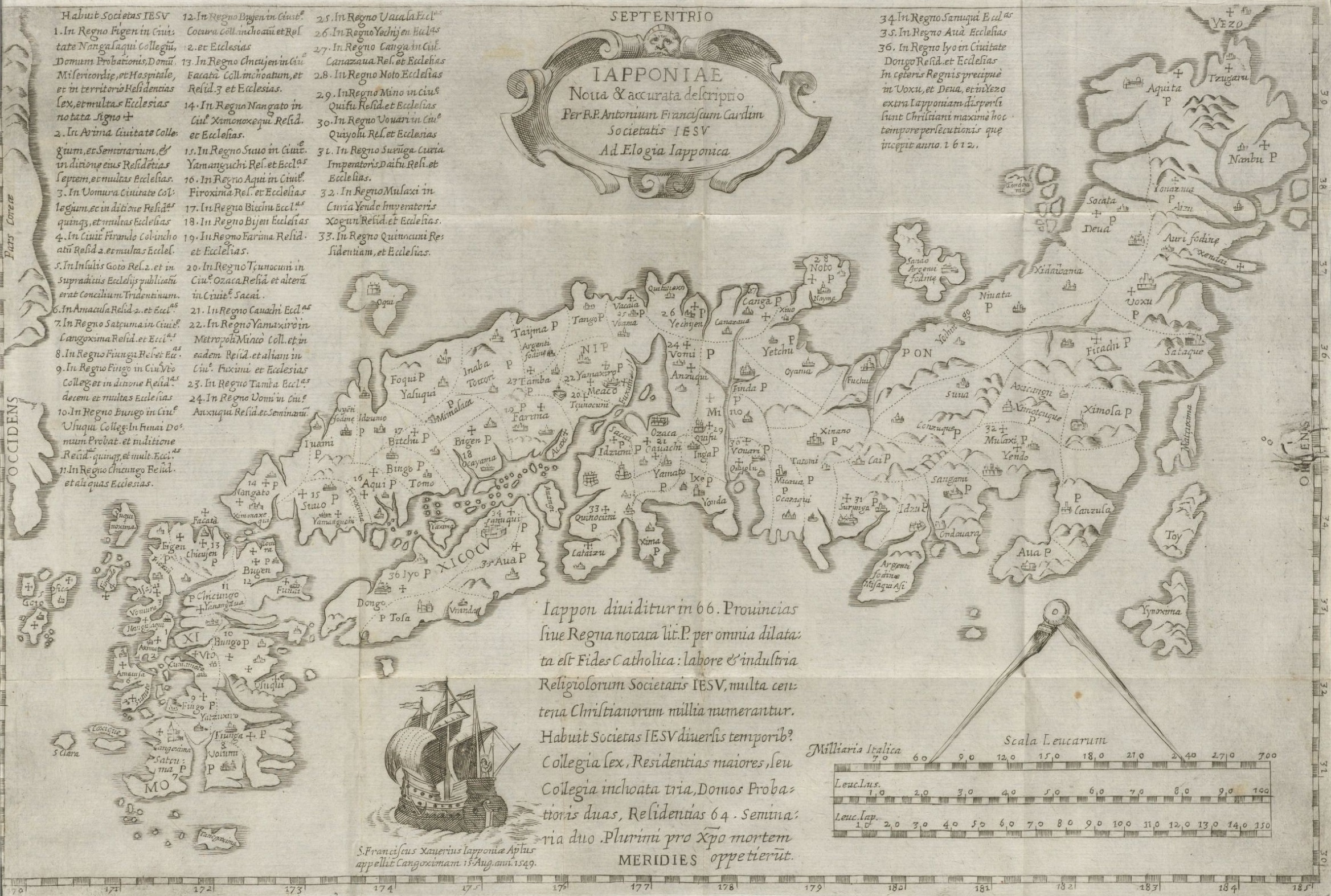 Map of Japan ("Iappane") following the title page from Fascicvlvs e Iapponicis floribvs, svo adhvc madentibvs sangvine / compositvs a P. Antonio Francisco Cardim è Societate Iesv, Provinciæ Iapponiæ ad Urbem Procuratore. By Antonio Francisco Cardim (1596-1659). Published in Rome: Typis Heredum Corbelletti, 1646. PC6 C1795 646f, Houghton Library, Harvard University